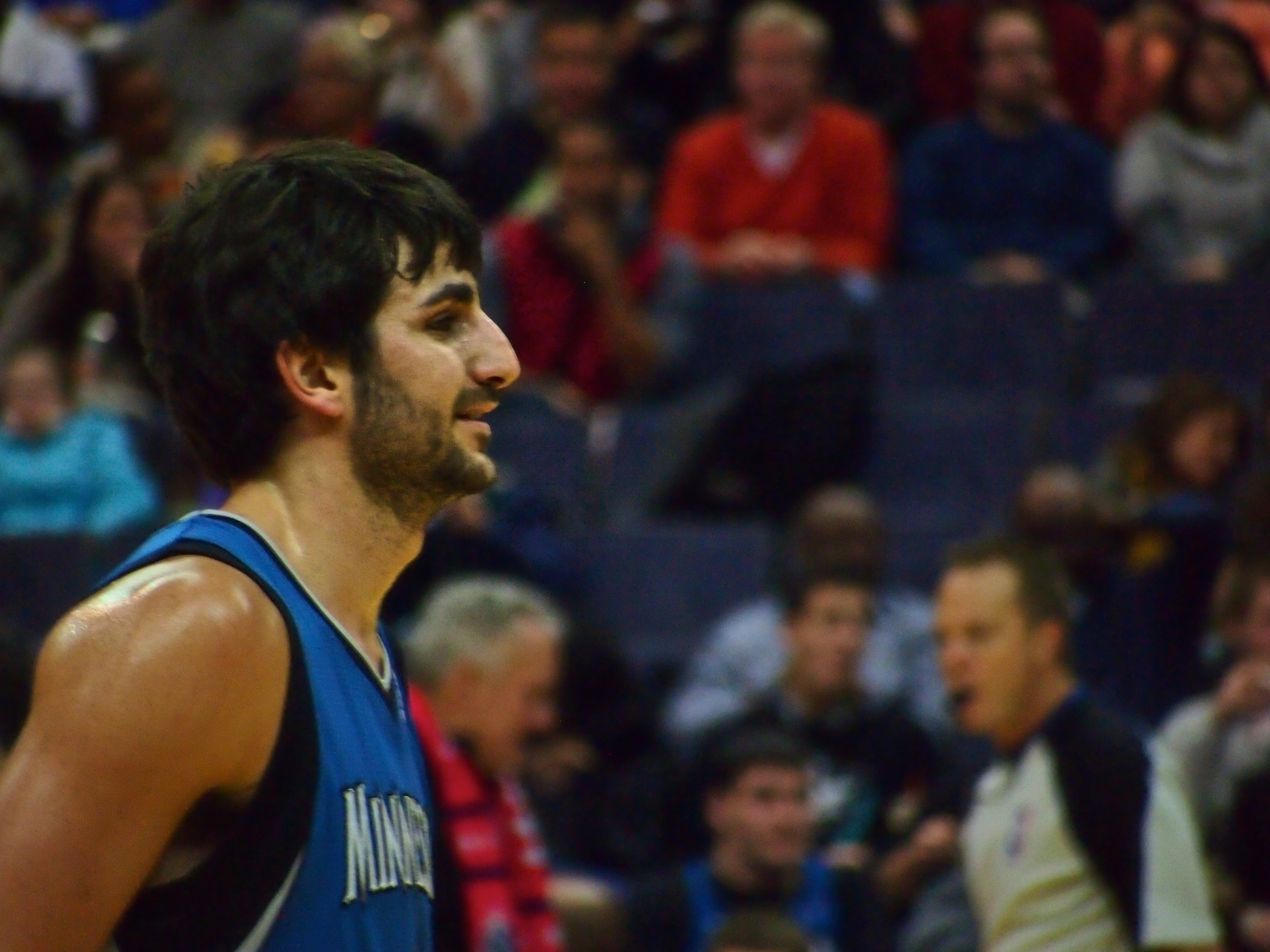 Ricky Rubio of the Minnesota Timberwolves in January 2013.